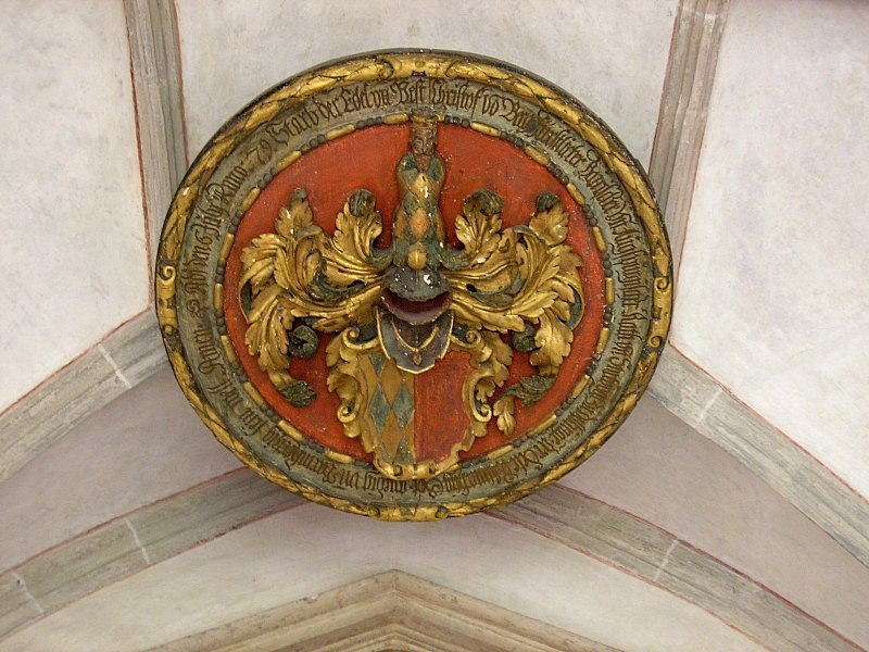 Augsburg cathedral (Bavaria, Germany). Cloister. Funeral shield (hatchment) of Christoph von Berg